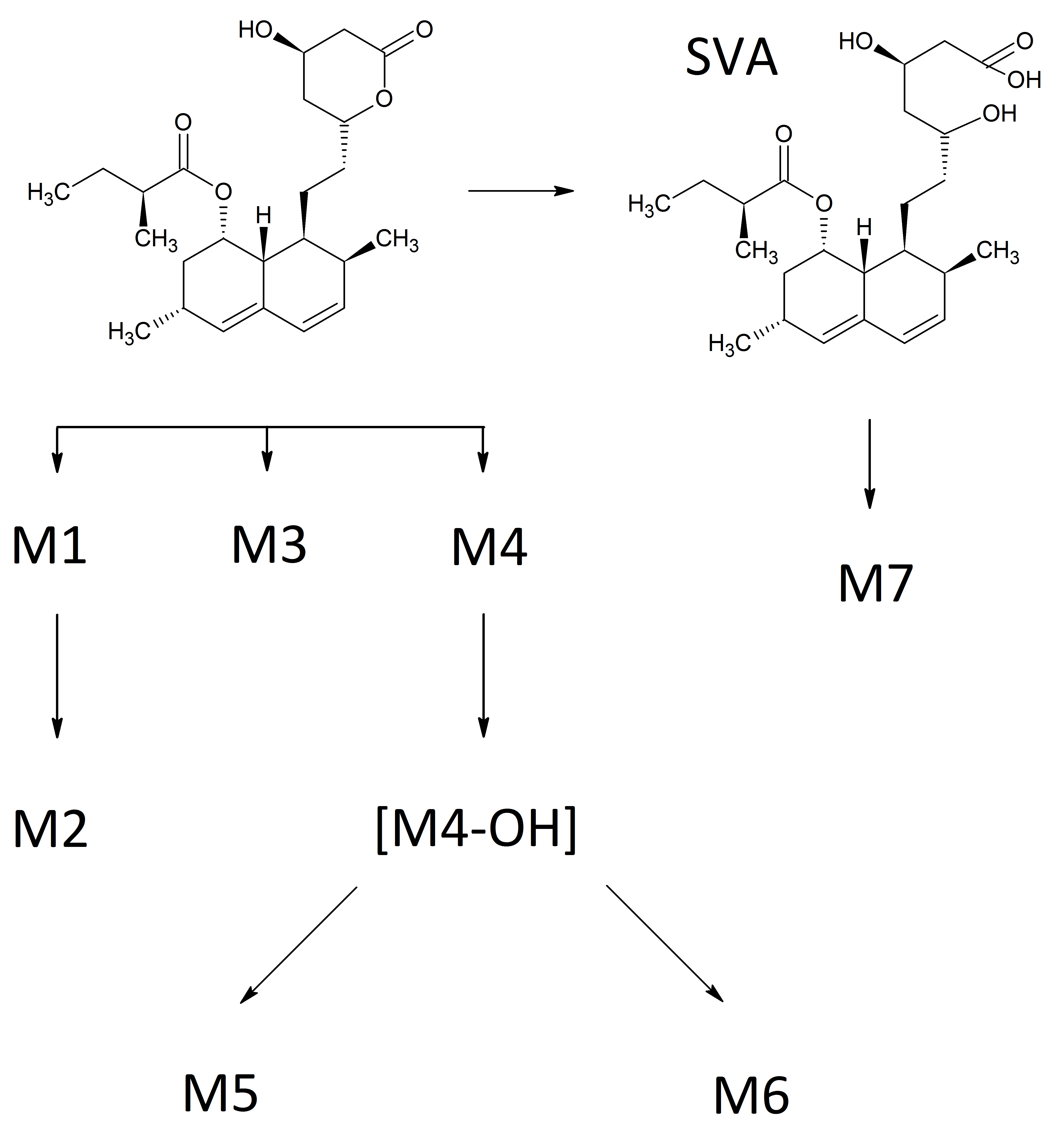 Simvastatin metabolic pathway S.Vickres et al. In vitro and in vivo biotransformation of simvastatin, an inhibitor of HMG CoA reductase.